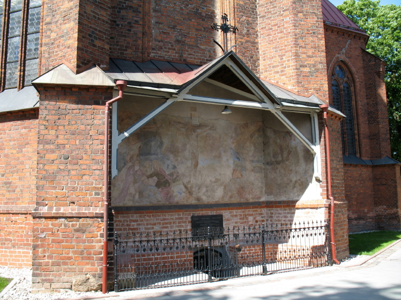 Kaunas Cathedral Basilica, Lithuania.